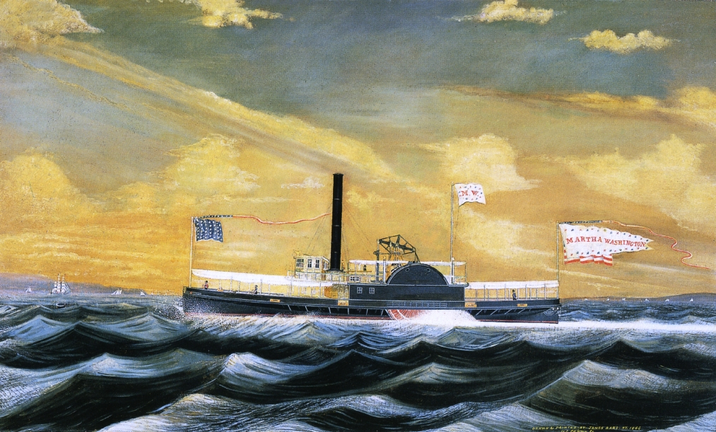 Martha Washington, New York Harbor excursion steamer, later sold to the U.S. Lighthouse service, functioned as lighthouse tender under the name Violet.